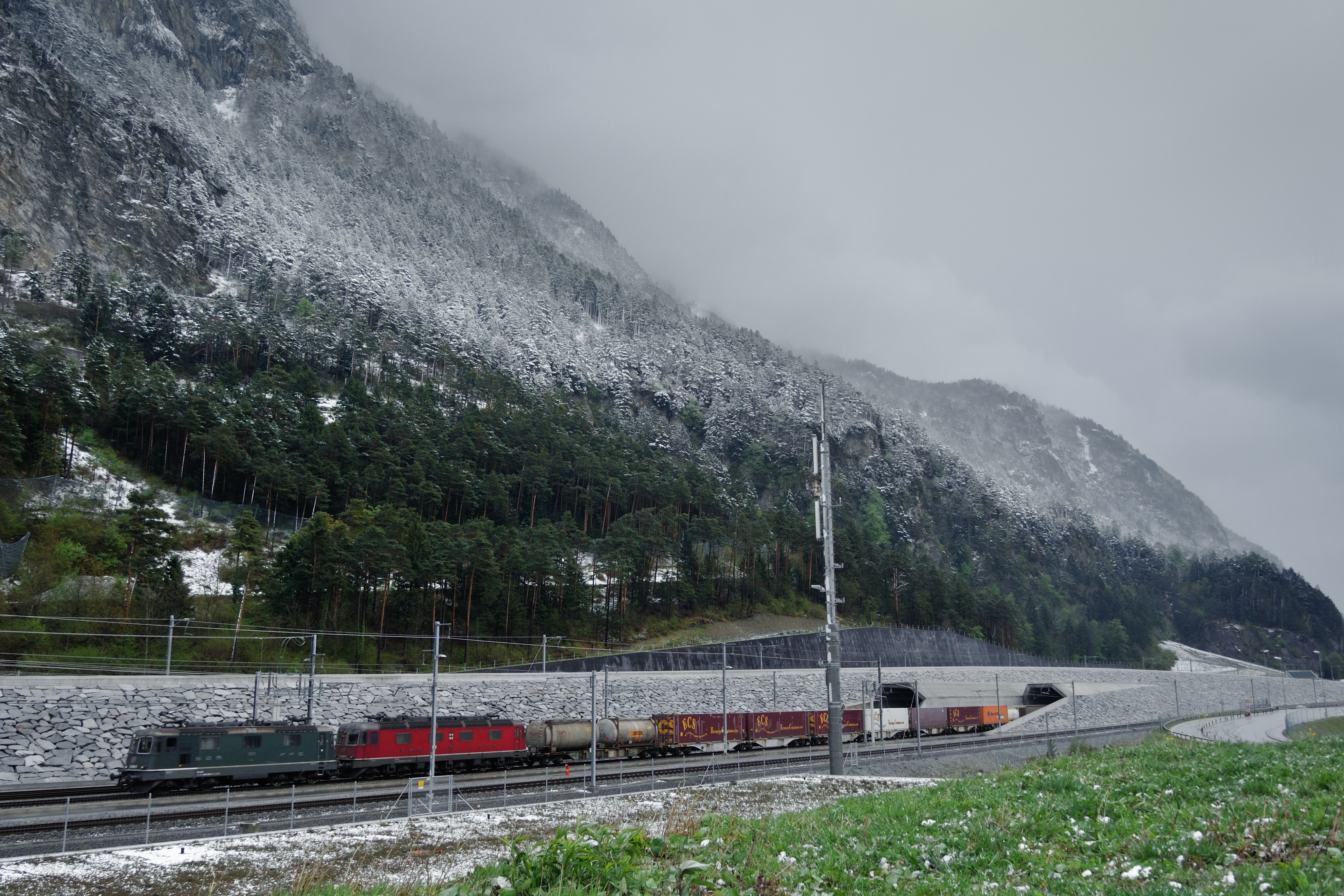 19 April 2017 weather at Erstfeld, looking south (northern portal of the Gotthard Base Tunnel). Overcast, snowfalls, maximum temperature: ~5°C. This image is part of a series showing the influence of the Alps on European climate.